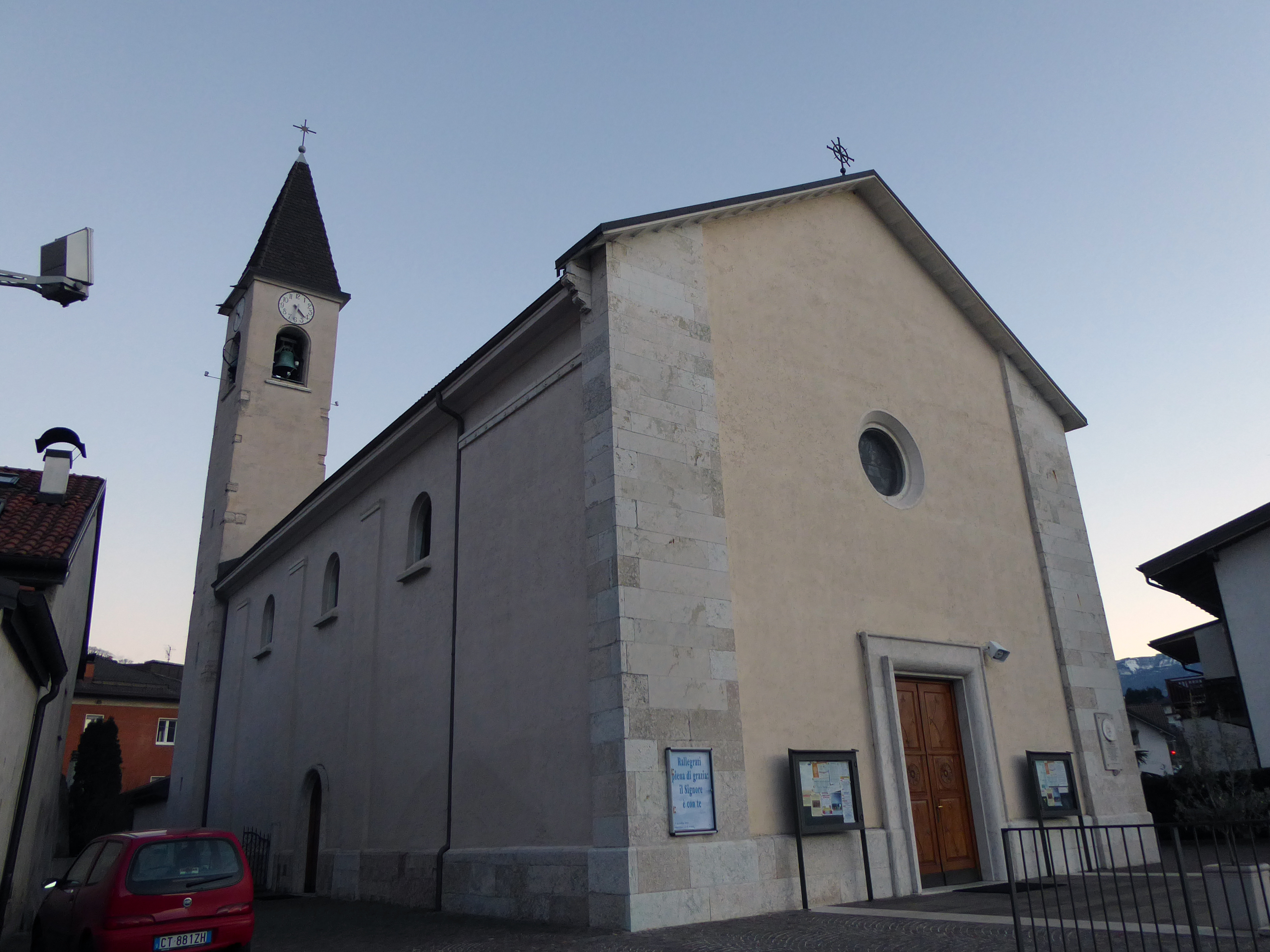 Martignano (Trento, Italy) - Chuch of Our Lady of Help